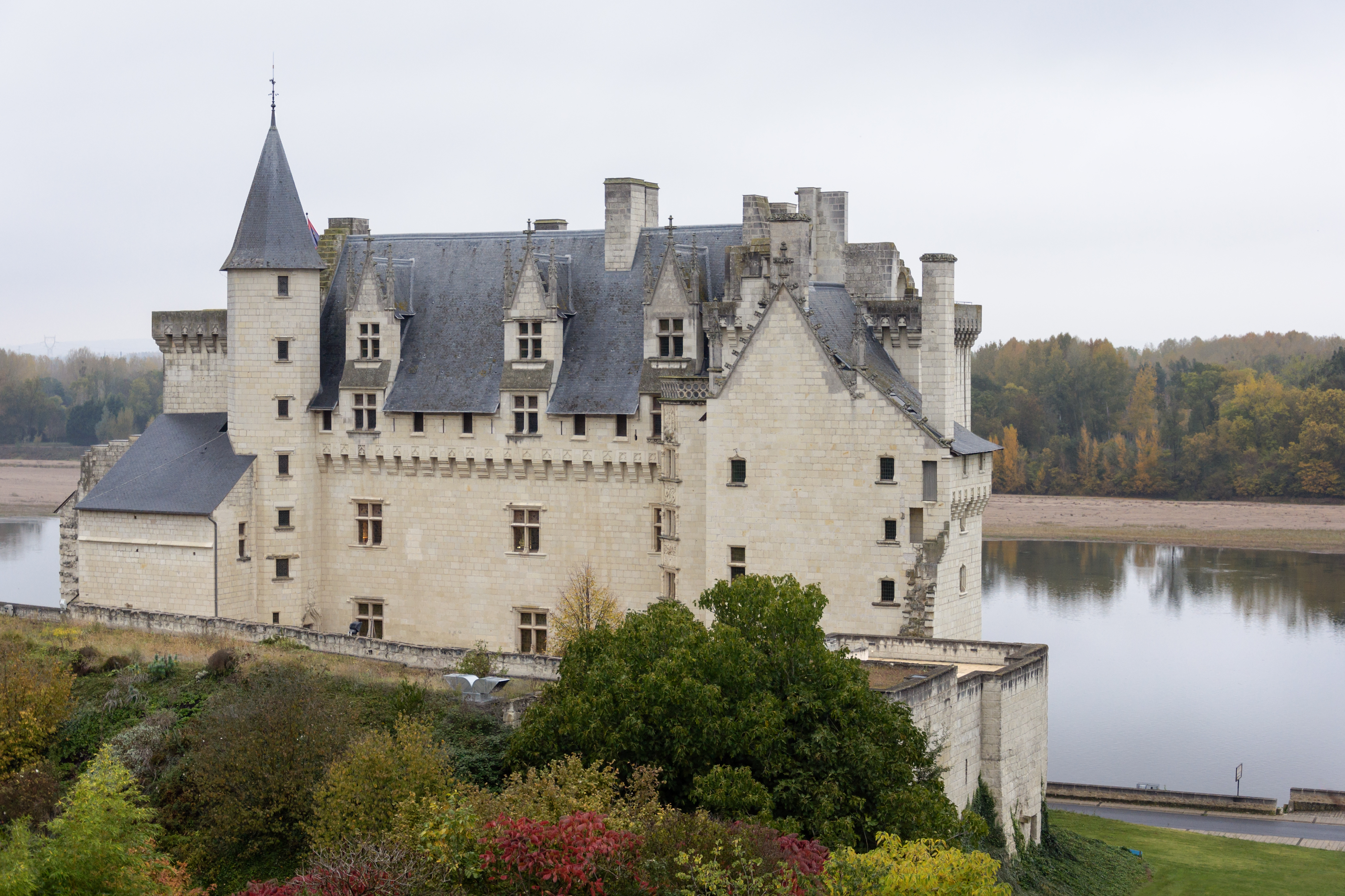 The Château de Montsoreau on the bank of the Loire river, Maine-et-Loire, France.